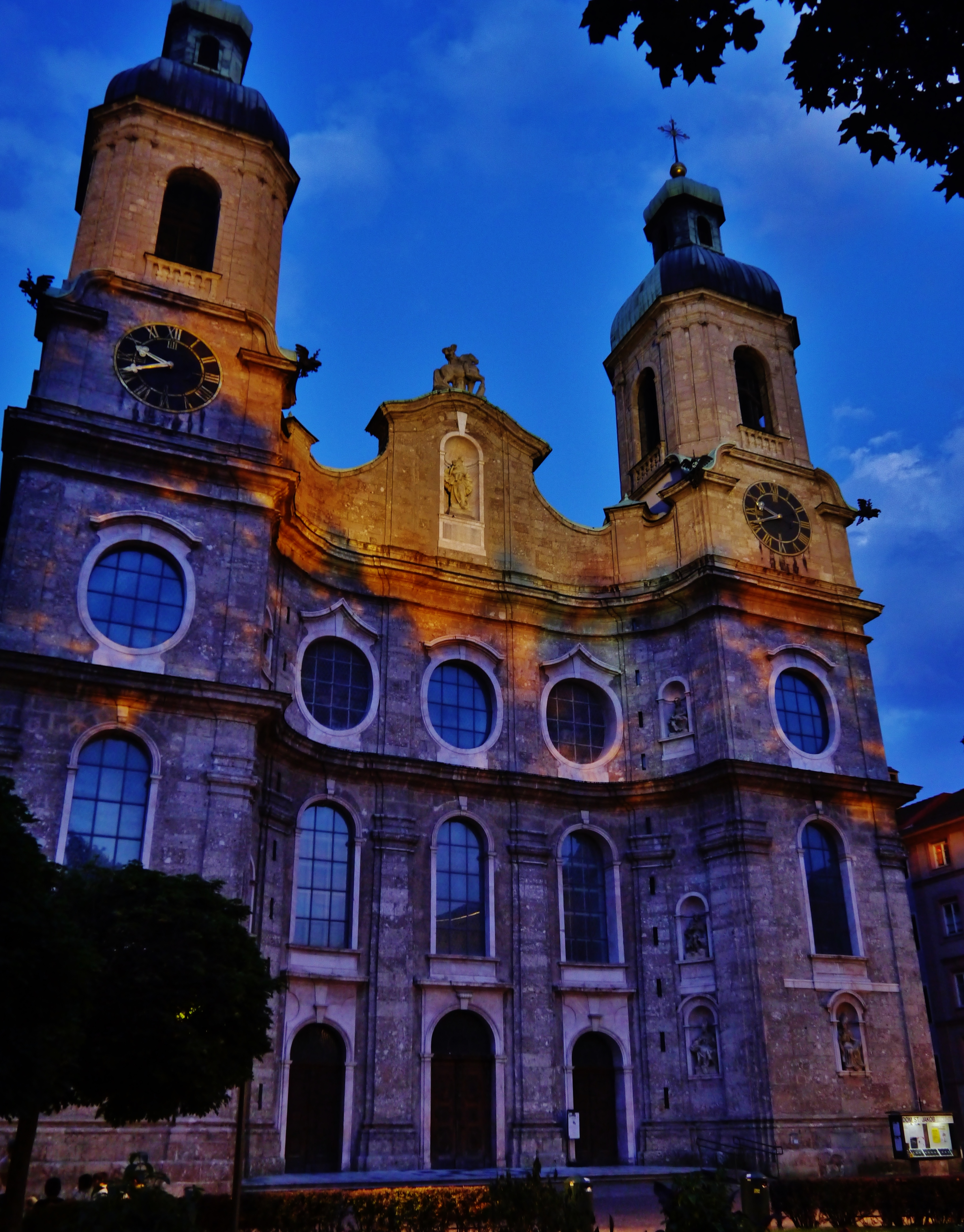 Facade of the Cathedral St. James at Night, Innsbruck, Tyrol, Austria